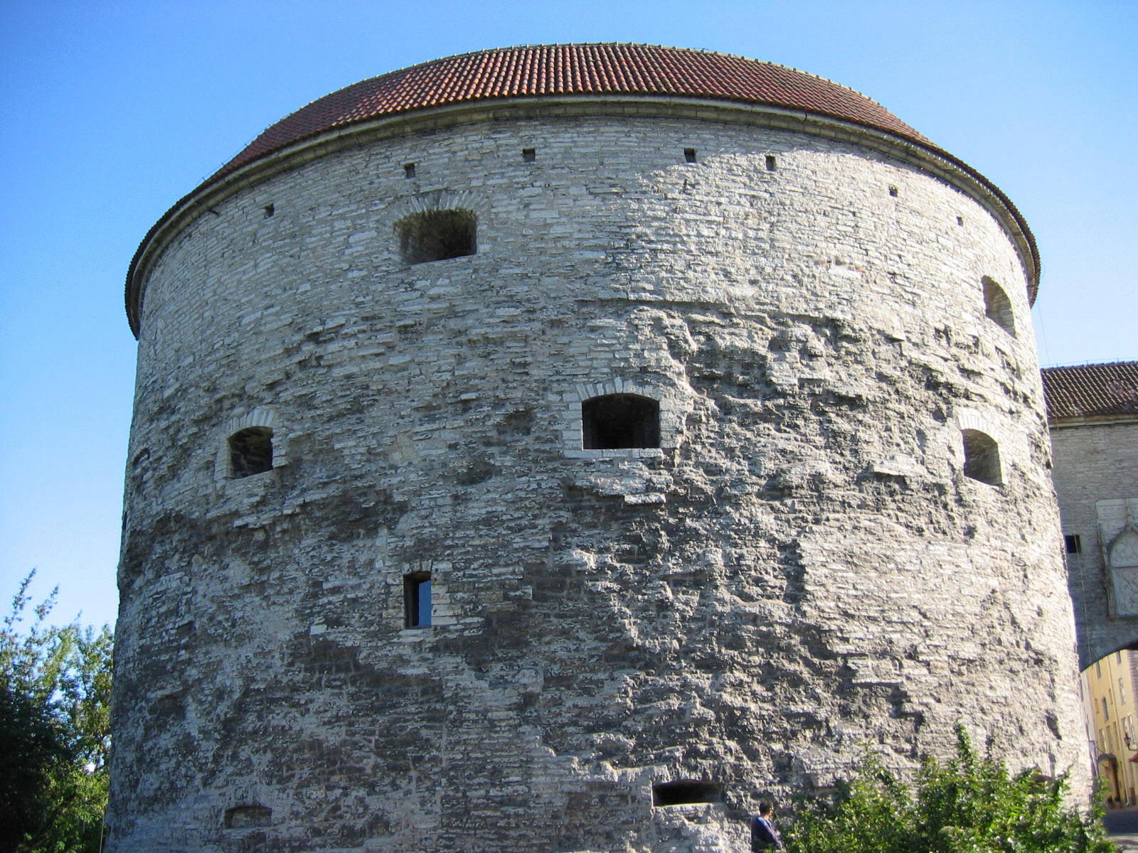 This canon tower was built in the 16th century to protect the harbor. It served as a storehouse for gunpowder and weapons, and as a prison. It now houses the Estonian Maritime Museum.